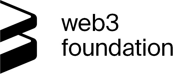 Web3 Foundation Logo